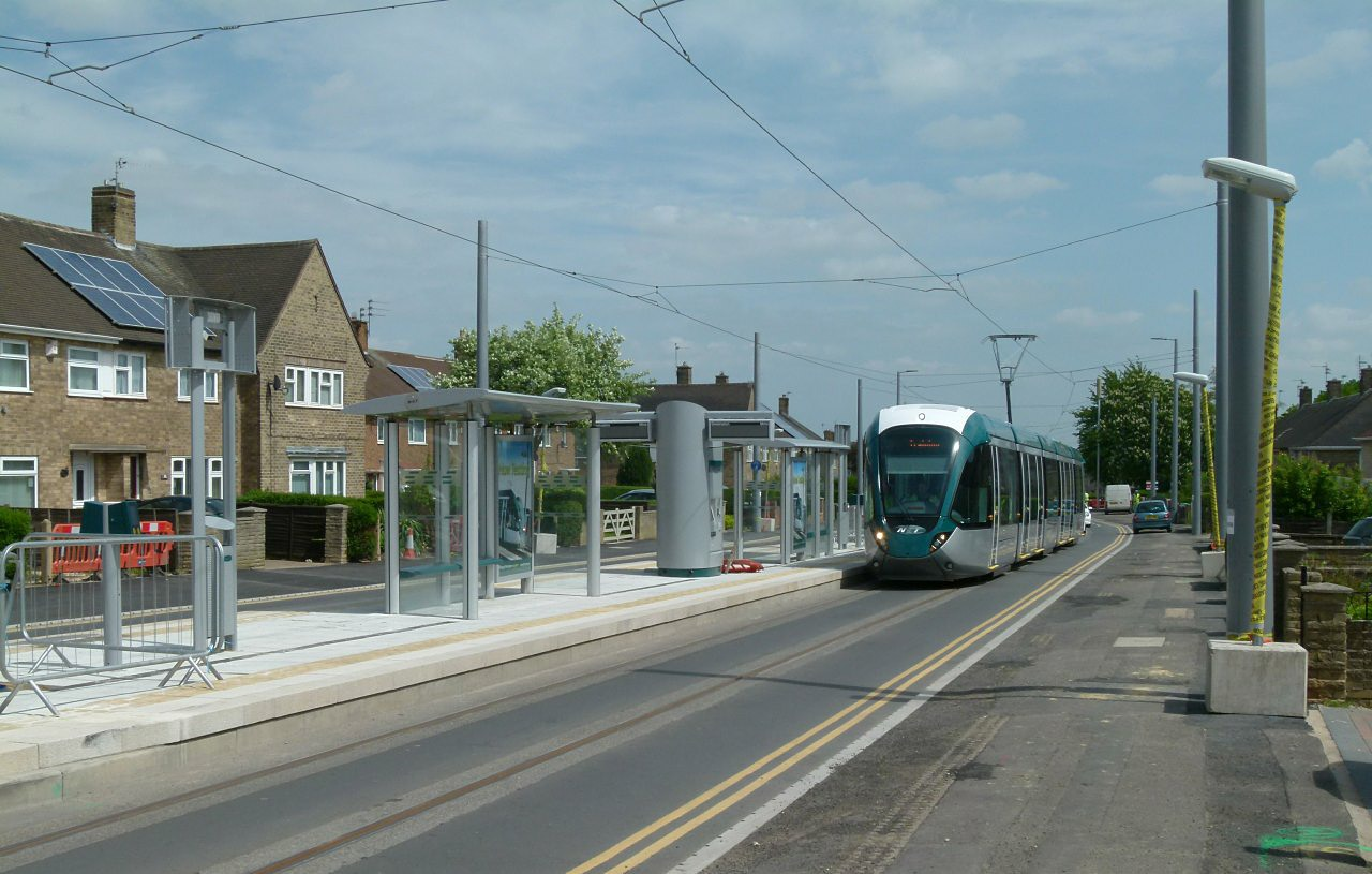 Training tram on Farnborough Road, passing Summerwood Lane stop with its island platform.